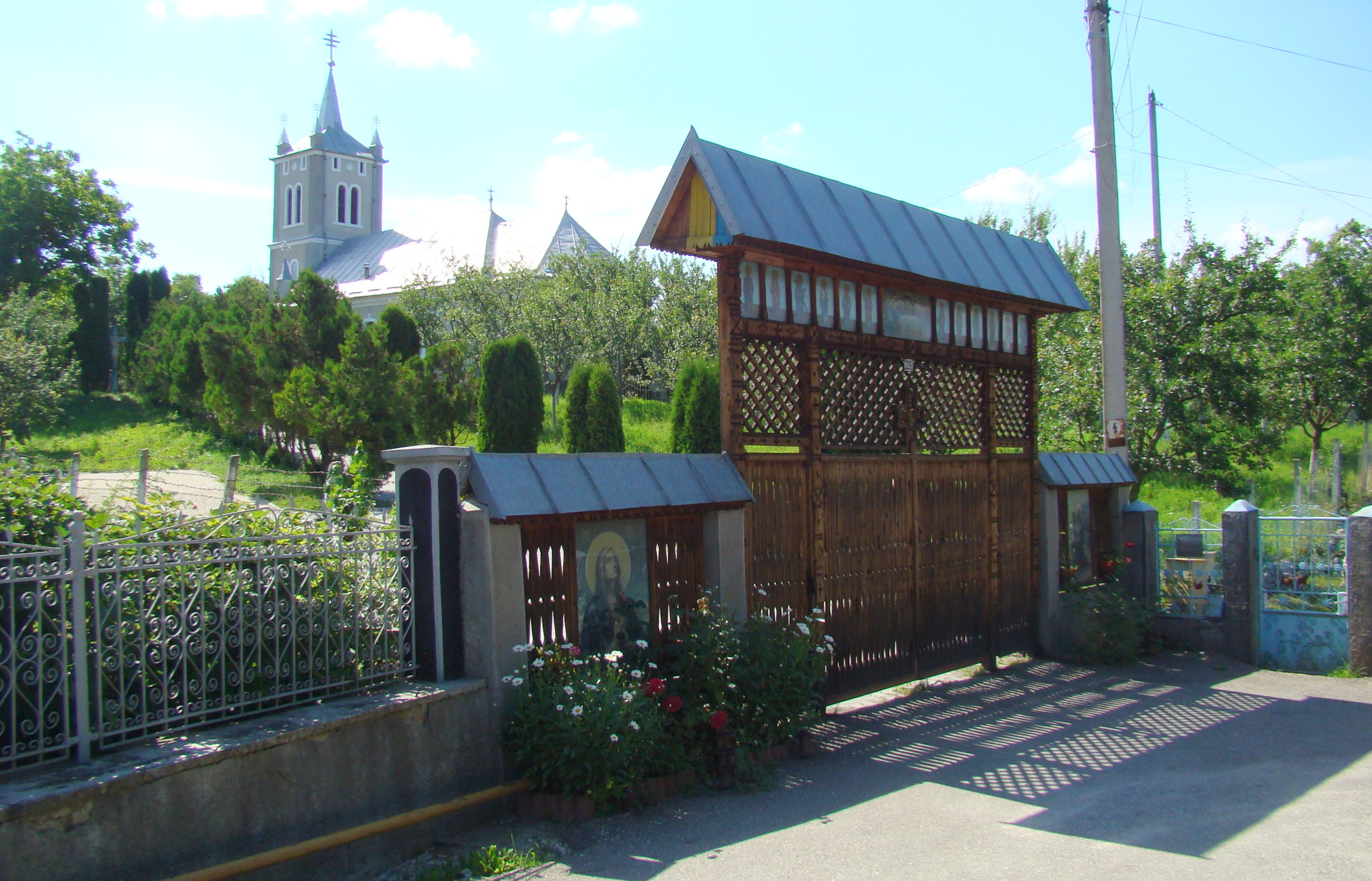 Orthodox church in Tureni, Cluj county, Romania